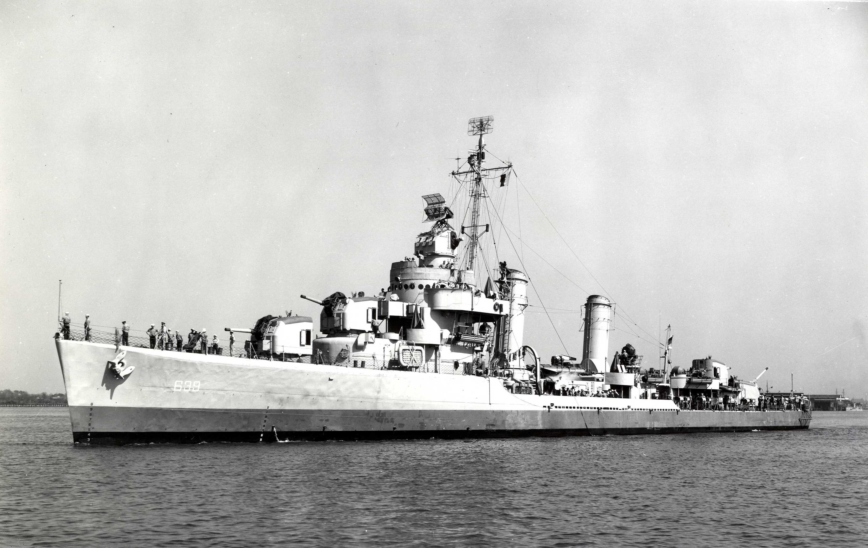 The U.S. Navy destroyer USS Shubrick (DD-638), circa 1943.